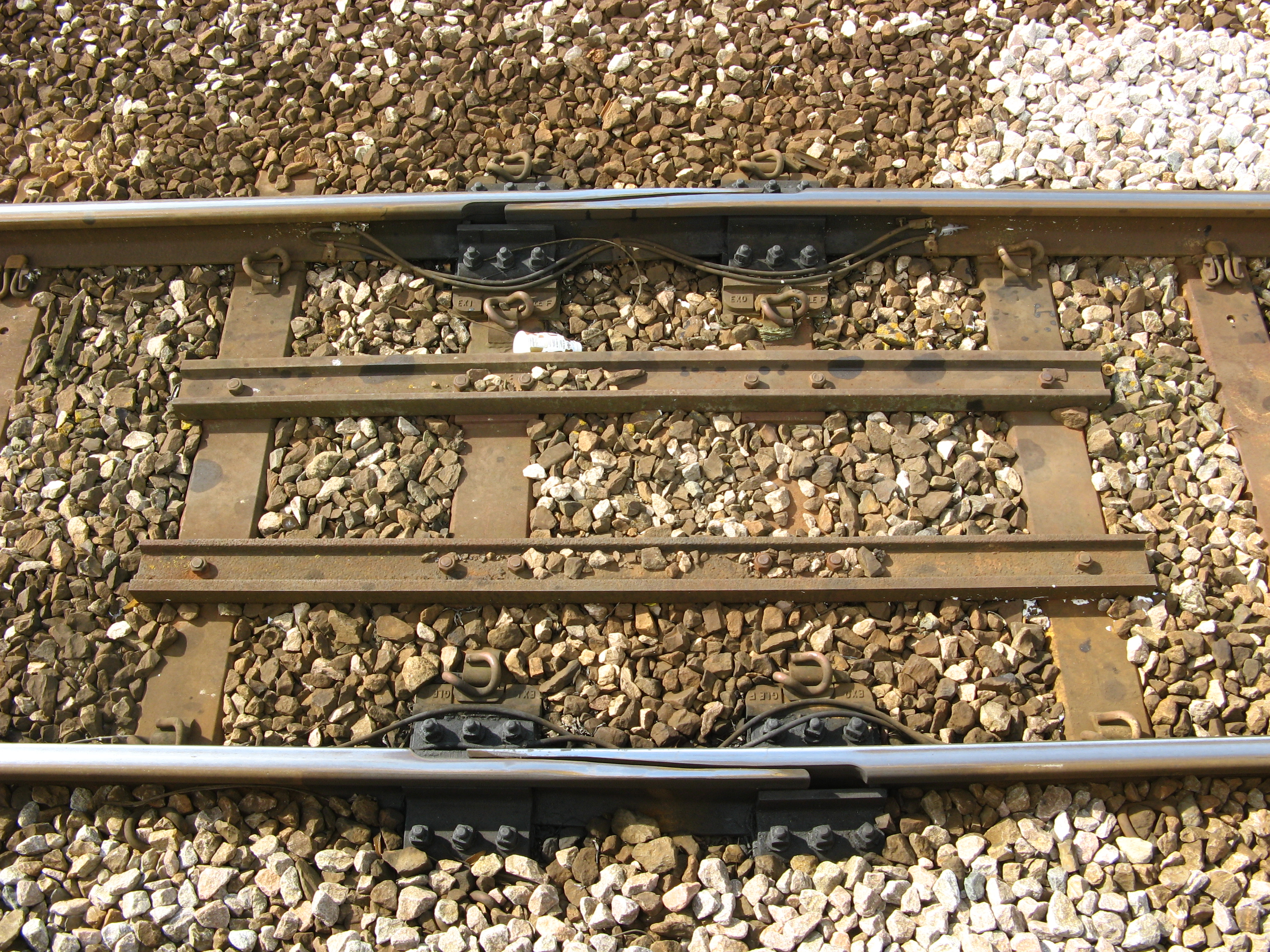 Railway track expansion joint in continuous welded rail within Hayle railway station, near to the start of the Hayle viaduct, on the track to Penzance (to left of photo).